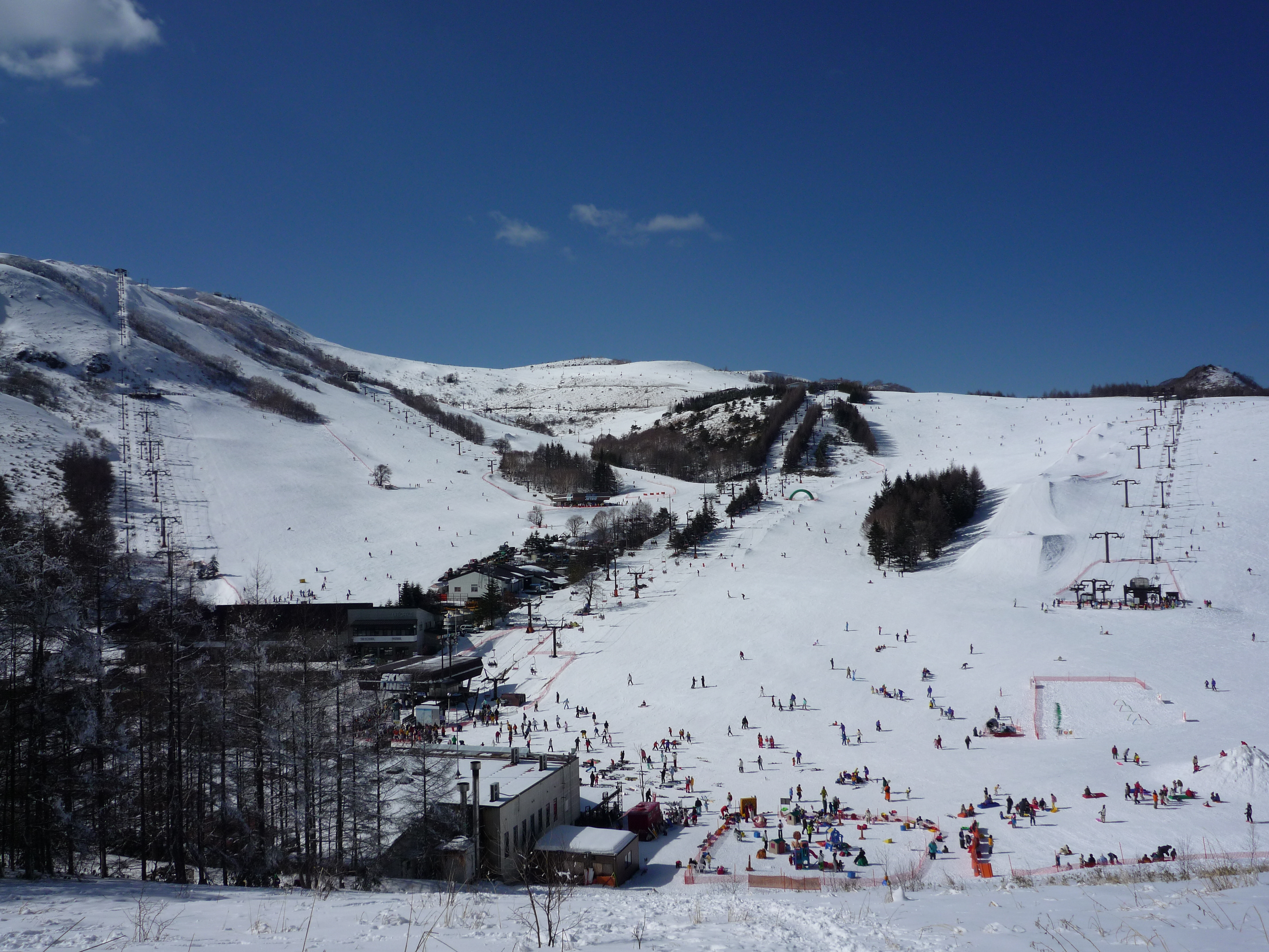 Kurumayama Kōgen Snow Resort in Chino, Nagano, Japan.